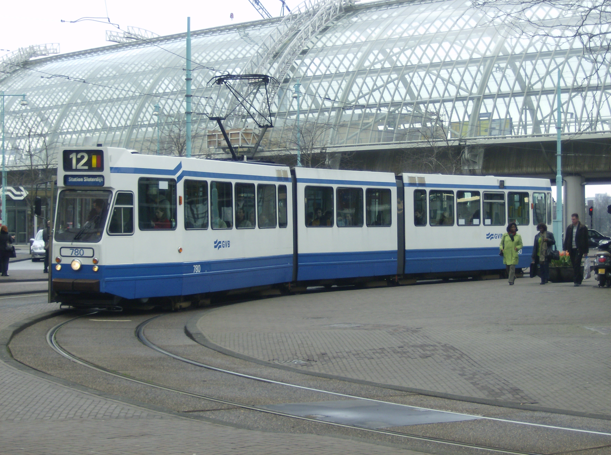 A tram on line 12 at the tram stop, with the new Hemboog station behind.